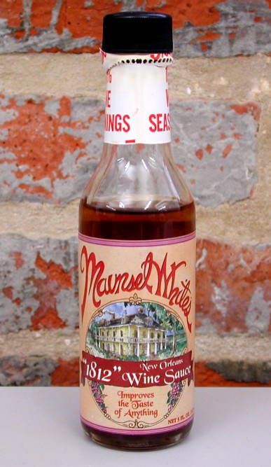 A modern-day bottle of Maunsel White's 1812 Sauce. Photo by the contributor.